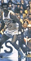 Supersonics basketball game; City Light slides [1]